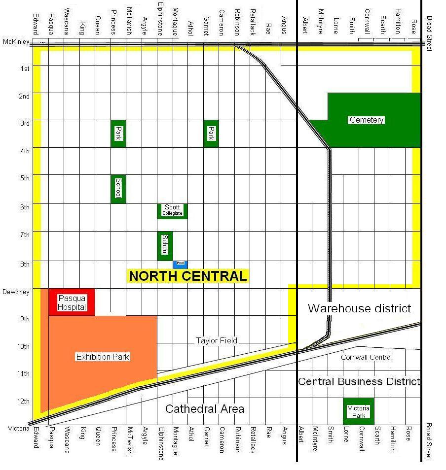 Self-made